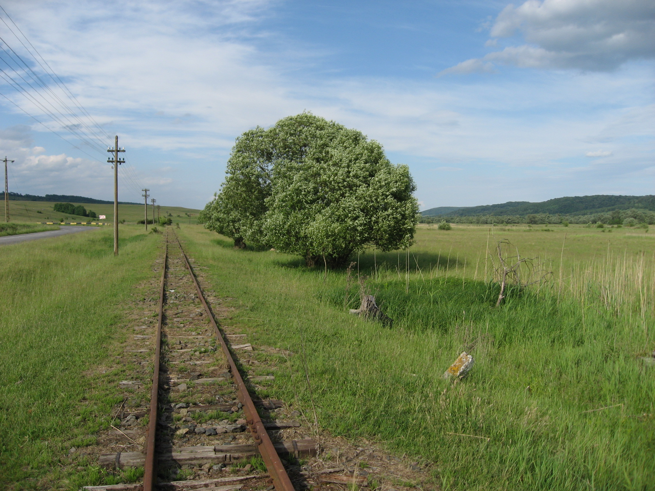 The tracks of the former railroad between Sibiu and Agnita, next to the Valea Hârtibaciului street, between the villages Cornățel and Hosman, Sibiu county, Romania